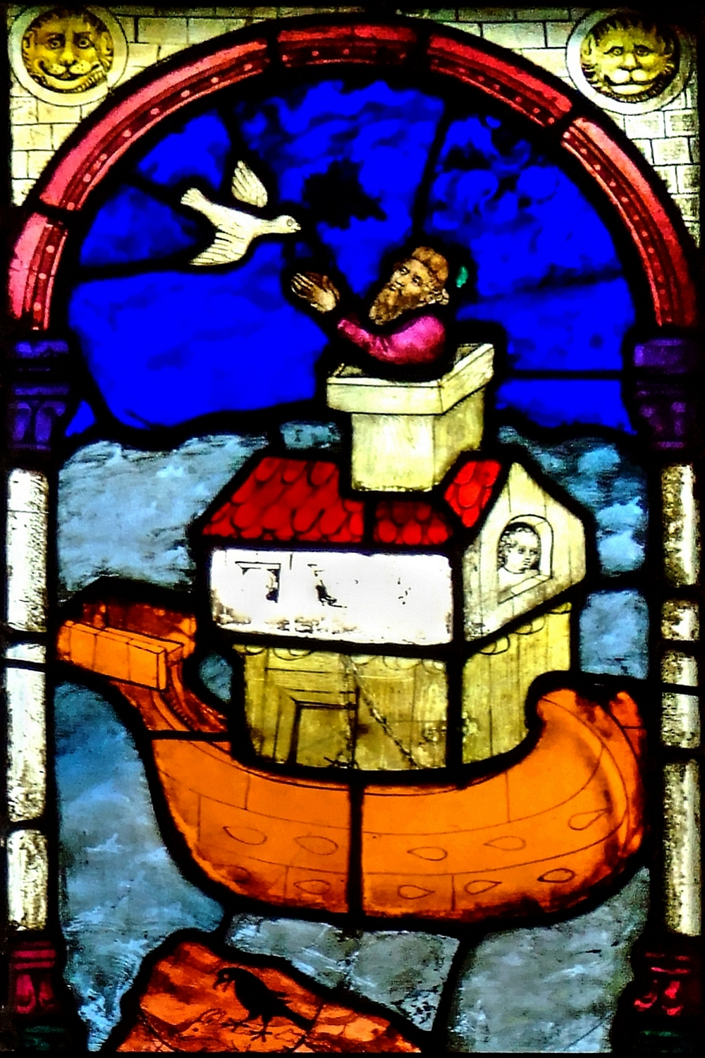 The Lutheran cathedral "Ulm Münster" of Ulm/Germany, "Noah's Ark" by Hans Acker (1430) - detail of the coloured window of the besserer-chapel